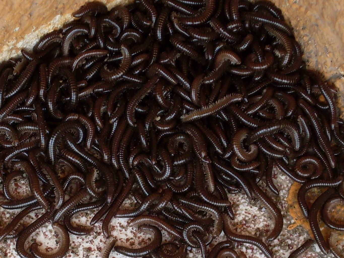 Millipedes - mating. Warsaw